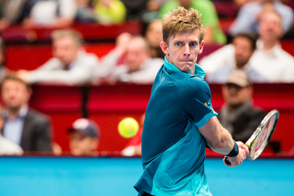 Kevin Anderson (RSA) versus Guillermo Garcia-Lopez (ESP) in the first round of the ATP Erste-Bank-Open 500 in the 'Wiener Stadthalle', Vienna, Austria